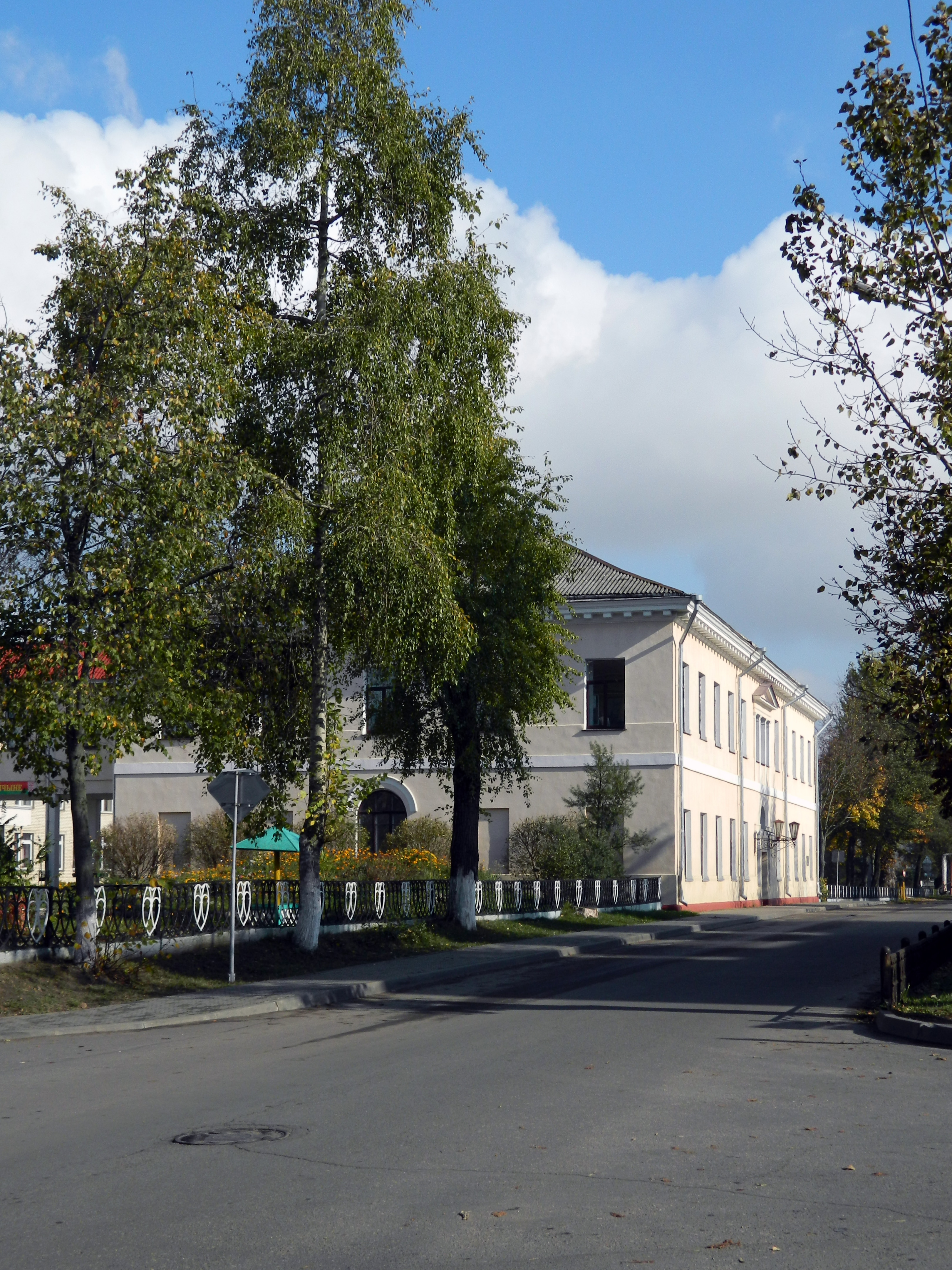 Slutsk Gymnasium 1 from the west.